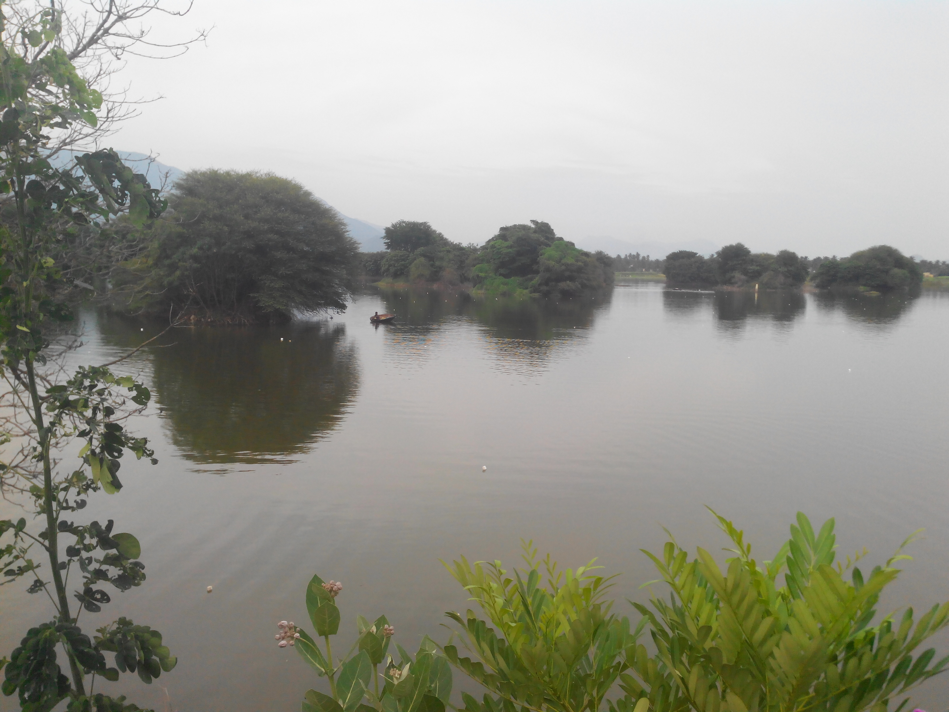 A man riding a coracle and beautiful islands of lake